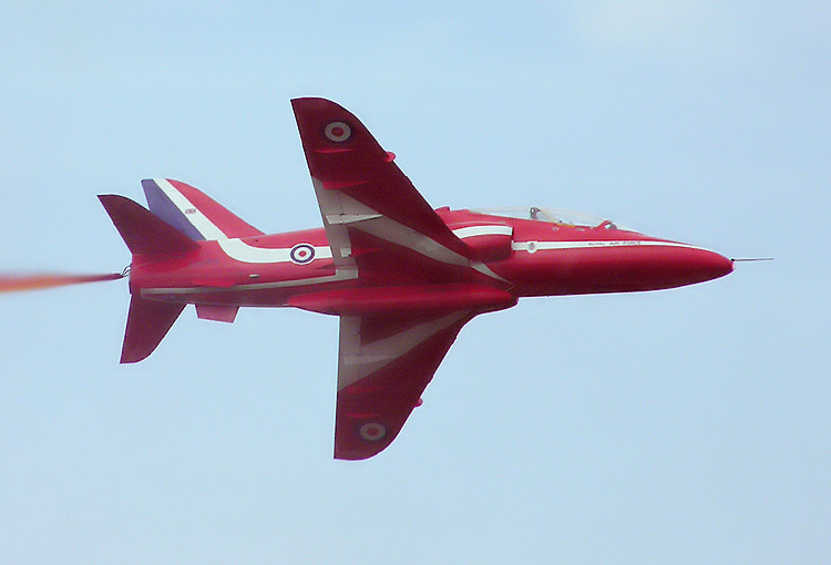 Red Arrow Hawk at speed during a display. Taken by Adrian Pingstone at Kemble Airfield, Gloucestershire, England in June 2004 and released to the public domain.